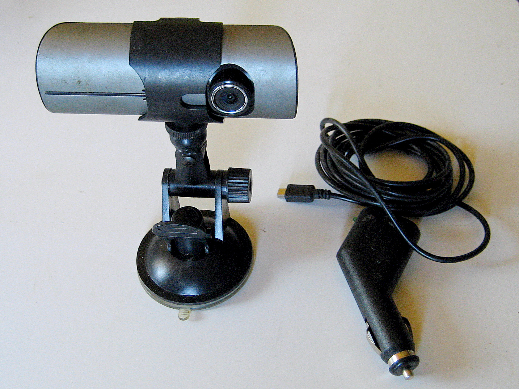 Automobile cameras